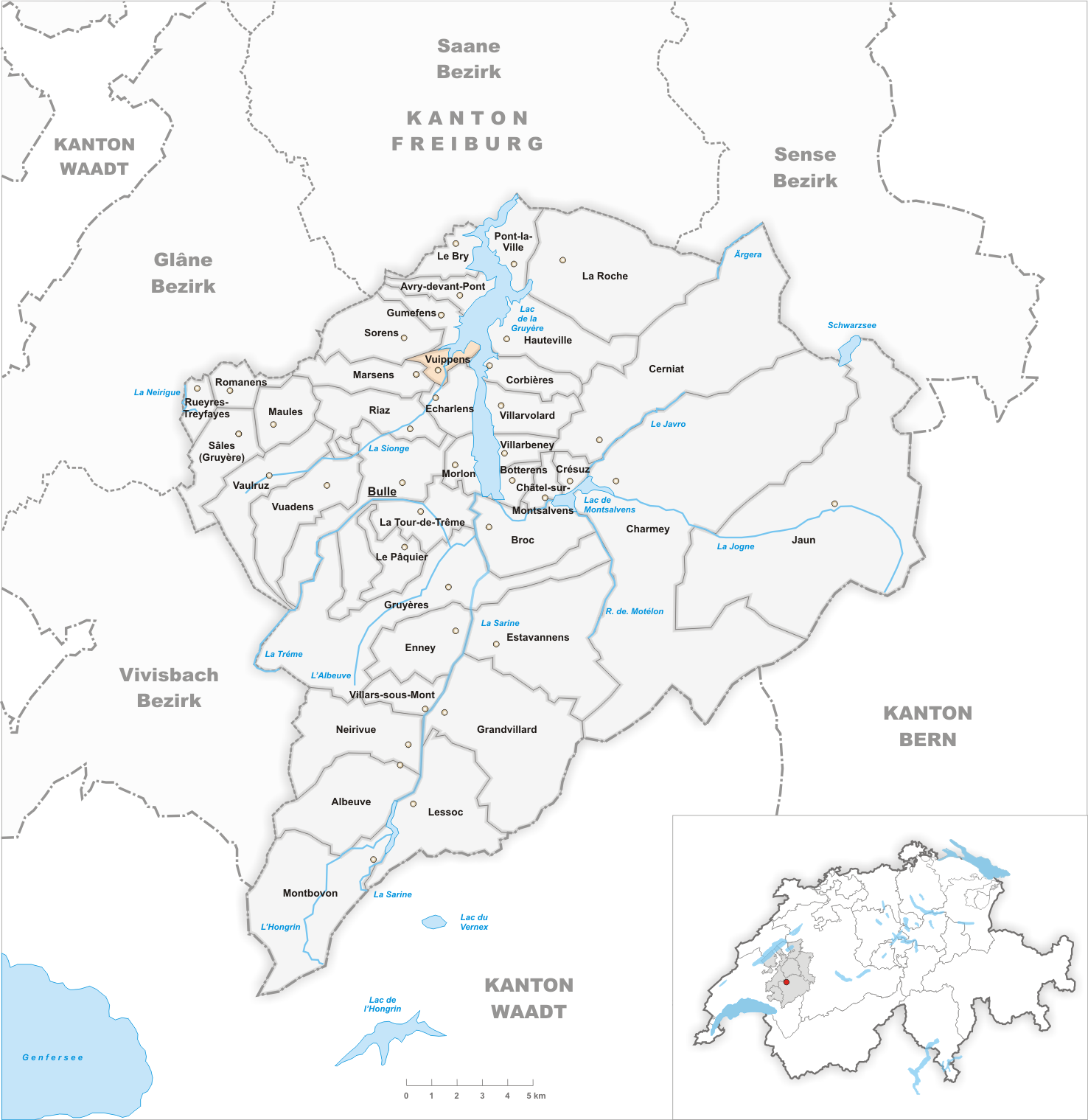 Municipality Vuippens Artist: Tschubby